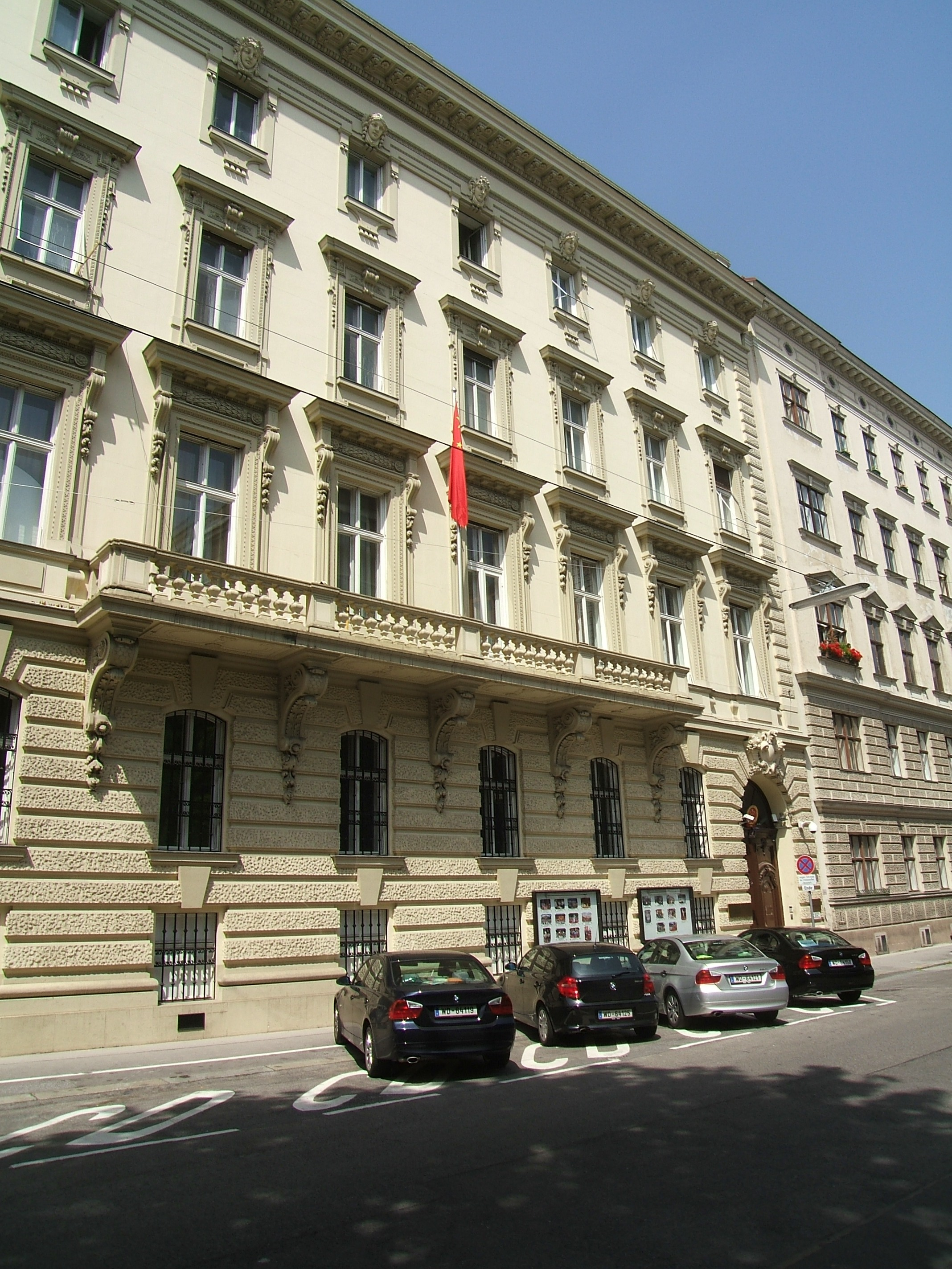 Embassy of China in Austria - Palais Bratmann in Vienna 3rd district Metternichgasse 4